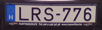 Standard Hungarian plate in 2010